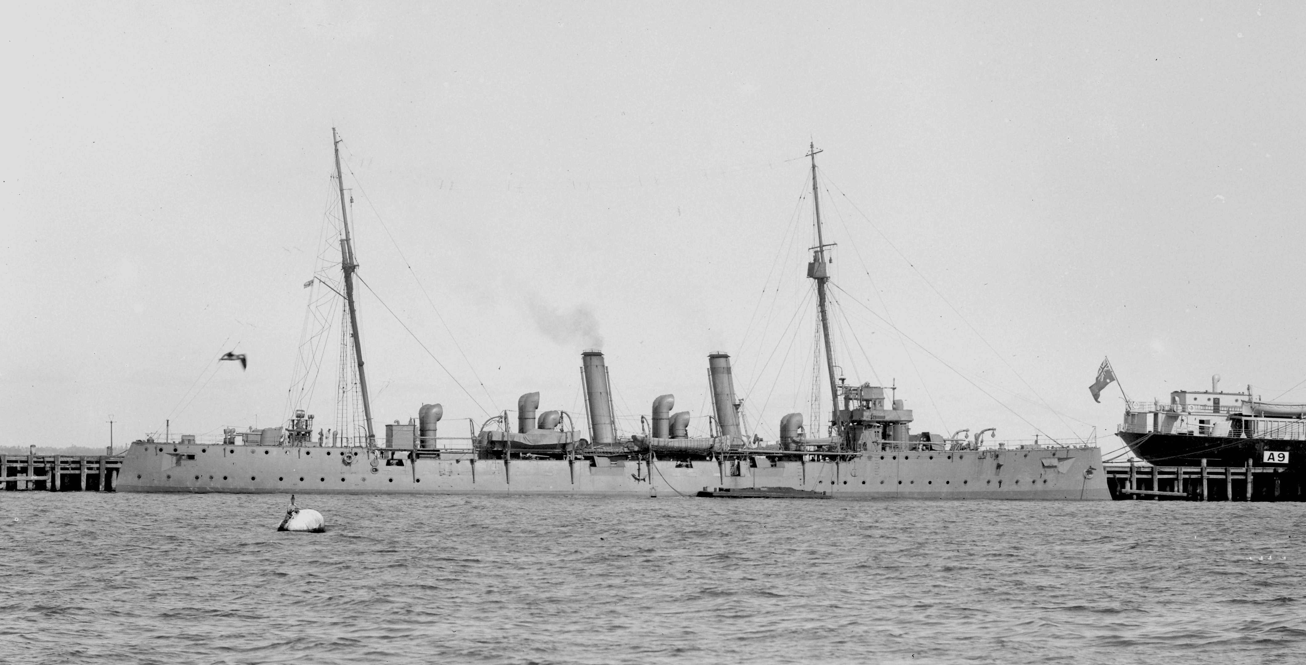 HMS Pyramus